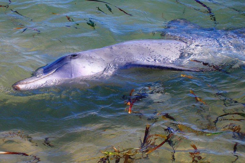 Shark Bay Marine Park, Western Australia, Indo-Pacific bottlenose dolphin at Monkey Mia